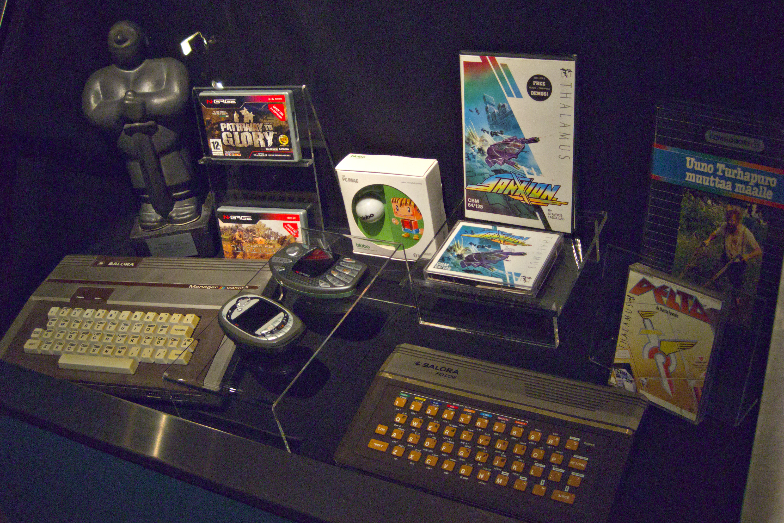 Photos from the Finnish Games Then and Now exposition at Tampere, Finland from 2012-06-05 to 2012-06-10.